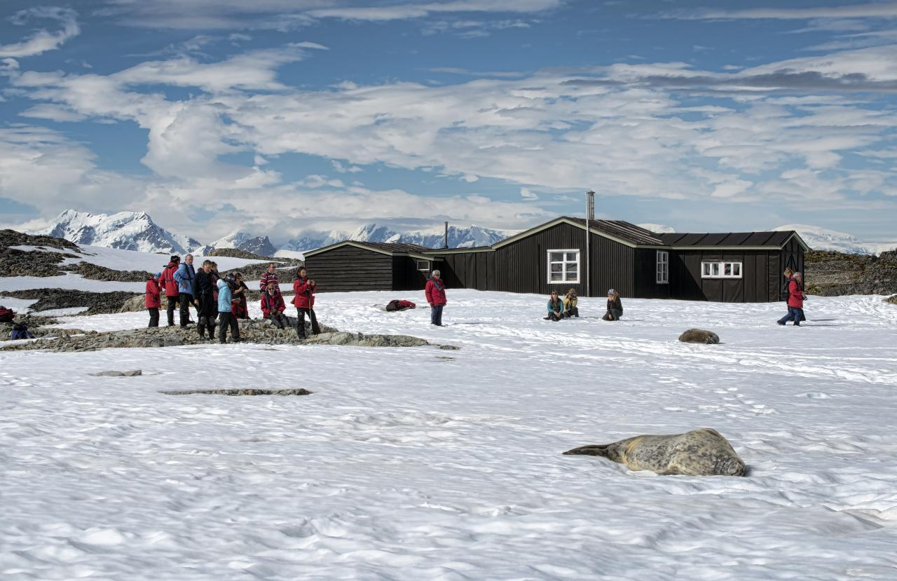 Winter Island is an island 0.5 nautical miles (0.9 km) long, lying 0.1 nautical miles (0.2 km) north of Skua Island in the Argentine Islands, Wilhelm Archipelago. Winter Island was named by the British Graham Land Expedition (BGLE), 1934–37, which made this island the site of its winter base during 1935. In 1947, Falkland Islands Dependencies Survey established a base on Winter Island, Base F (Argentine Islands). The main building ("Wordie House") was erected at the old camp site. The station were relocated to the neighbouring Galindez Island in May 1954 and renamed Faraday Station in 1977.